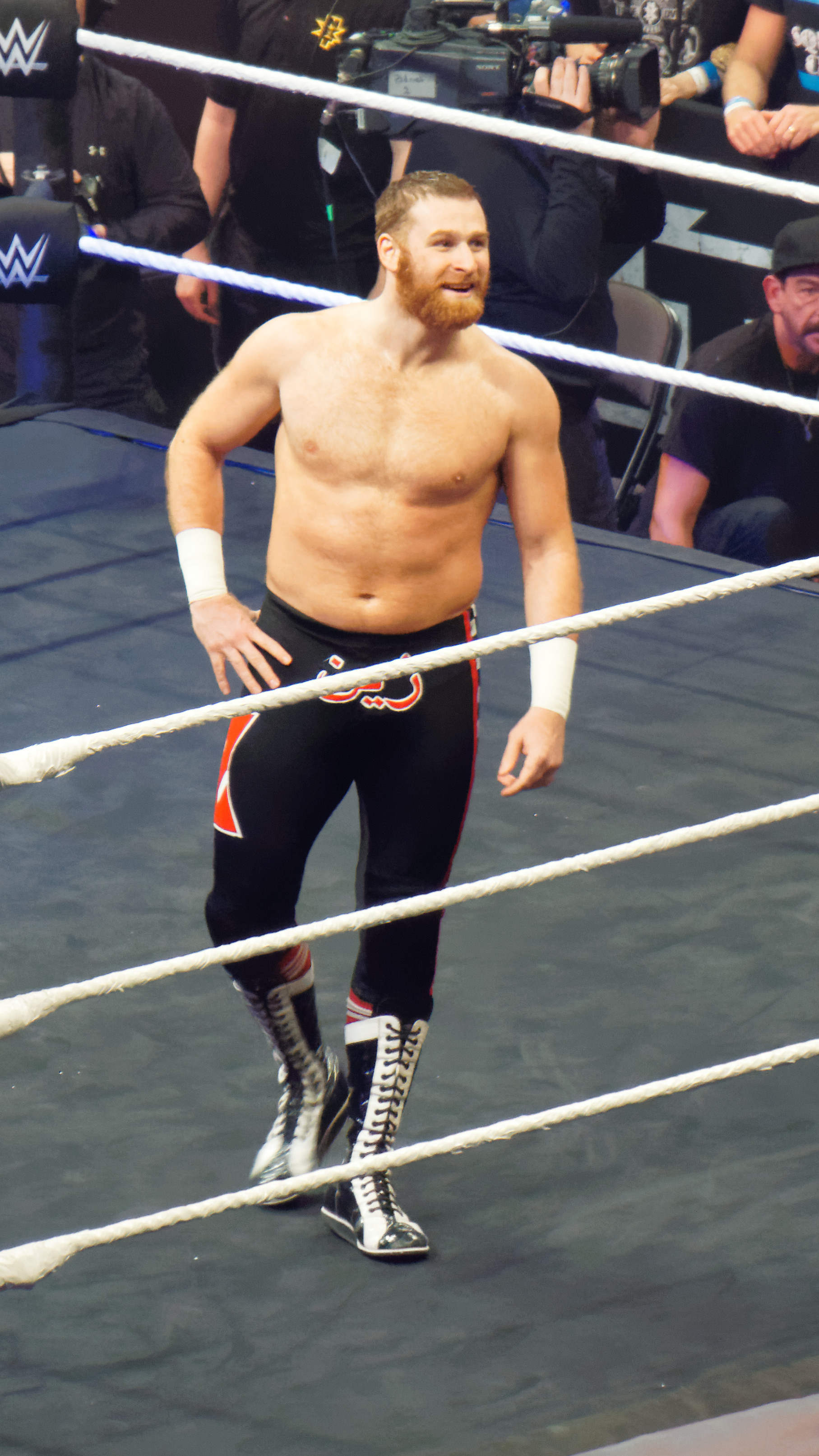 NXT TakeOver: Dallas was a major professional wrestling show in the NXT TakeOver series that took place on April 1, 2016, produced by WWE, showcasing its NXT developmental brand, and was streamed live on the WWE Network. It took place in the Kay Bailey Hutchison Convention Center in Dallas, Texas, during the weekend of WrestleMania 32. It was the first show in the NXT TakeOver series to be broadcast live on the WWE Network during WrestleMania weekend and first of 2016.[4] It was notable for Shinsuke Nakamura's WWE debut and first live match. The event received critical acclaim, with critics endorsing it as being better than WWE's WrestleMania 32 held two days later. The Zayn-Nakamura match was also lauded for being better than any match from WrestleMania 32. Shinsuke Nakamura def. (pin) Sami Zayn